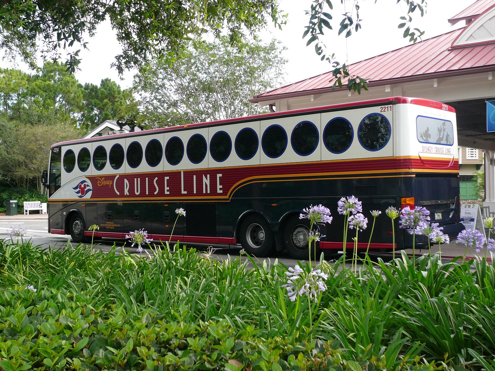 Disney World Cruise Line Bus